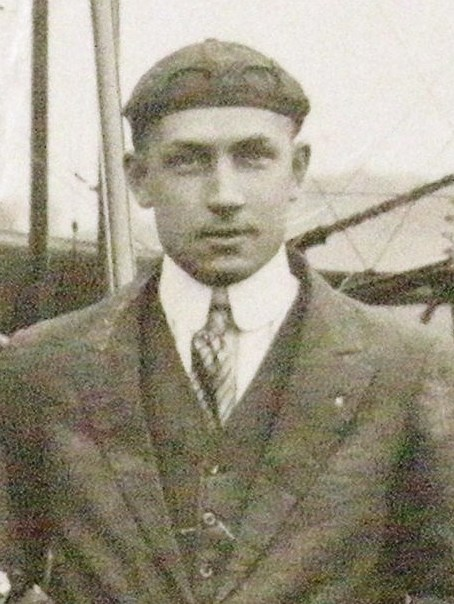 George William Beatty at Hendon Aerodrome, Aug. 1916.